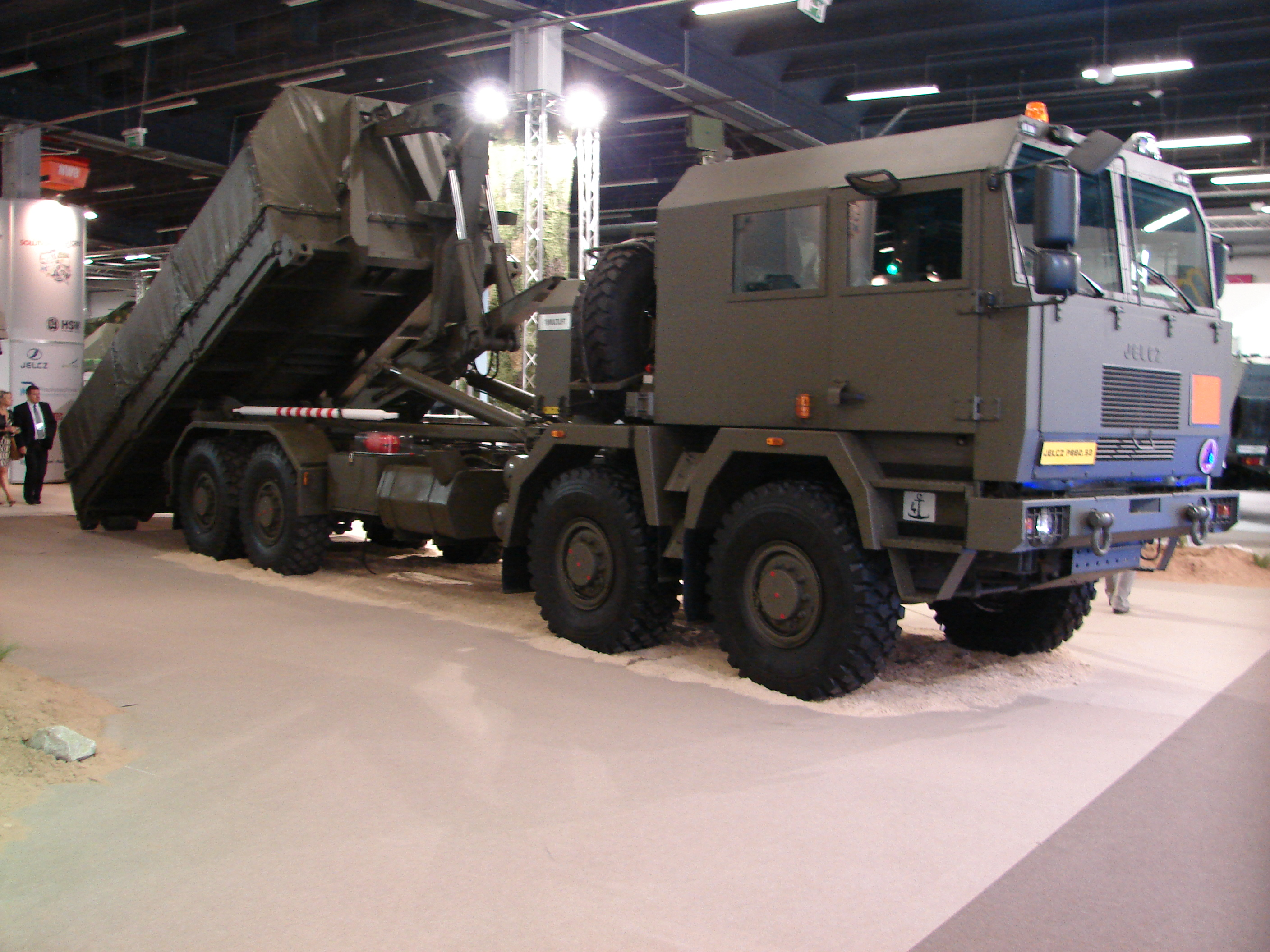 Jelcz P882 D53 z systemem Multilift